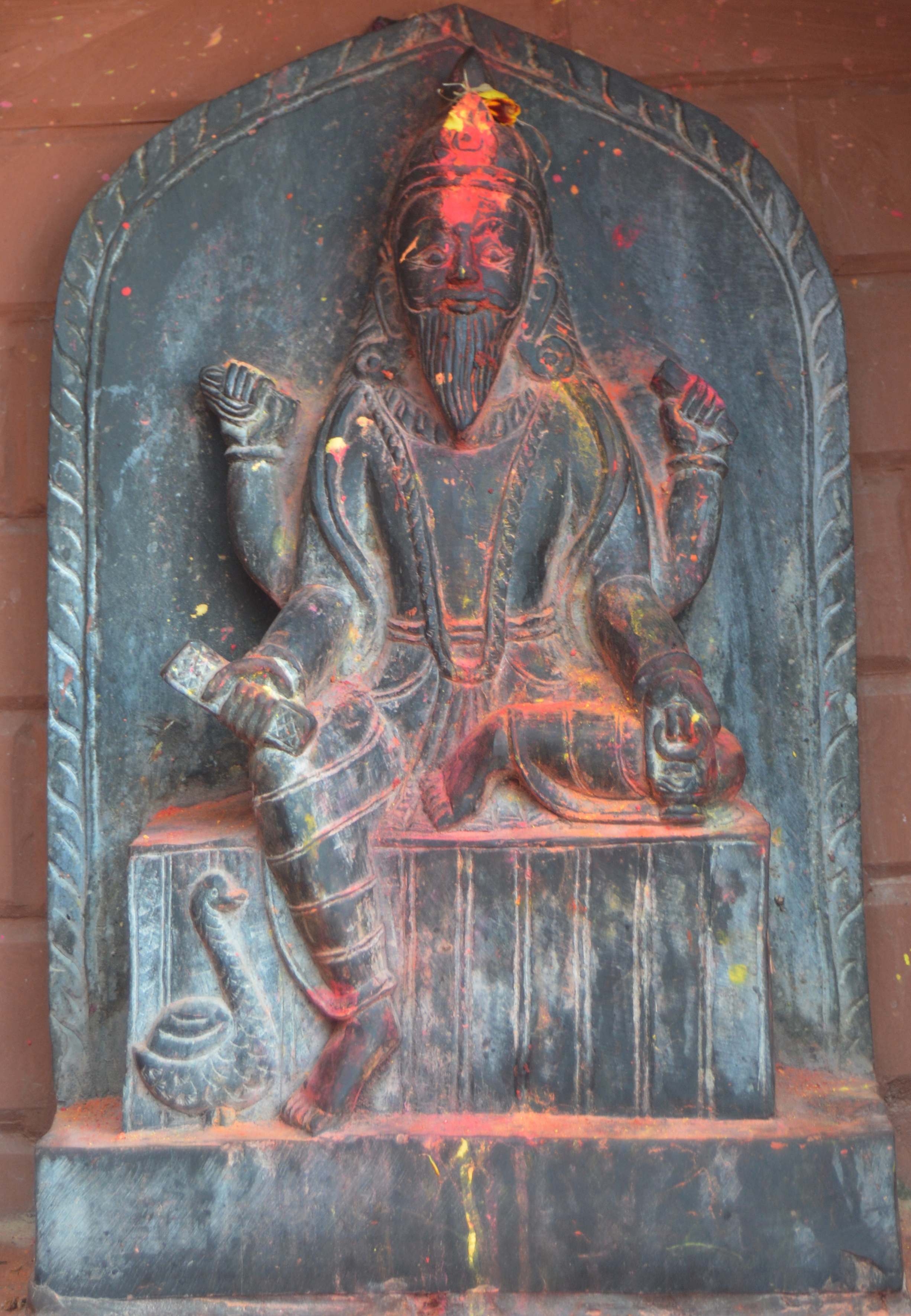 vishvakarma is personification of creation and the abstract form of the creator God according to the Rigveda. He is the presiding deity of all Vishwakarma (caste), engineers, artisans and architects. He is believed to be the "Principal Architect of the Universe ", and the root concept of the later Upanishadic figures of Brahman and Purusha.